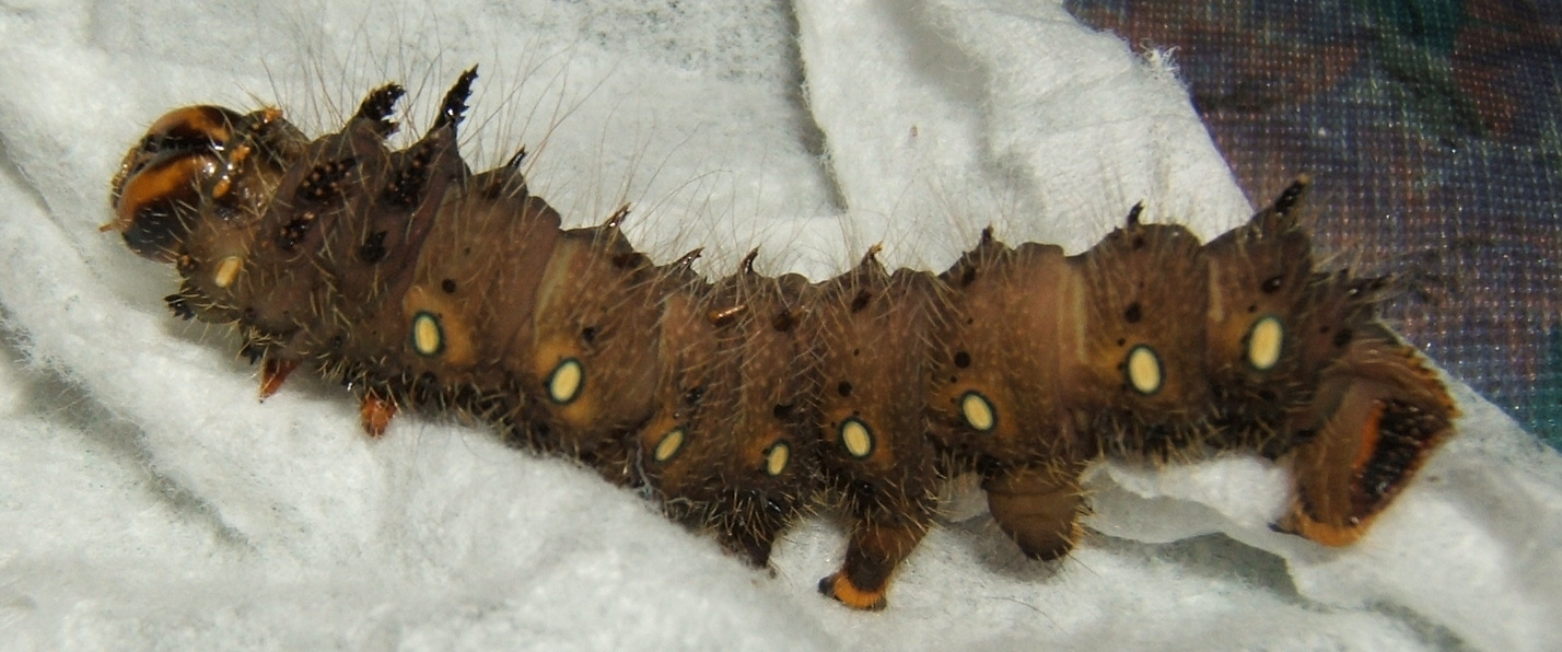 Eacles imperialis 5th instar larva reared on Post oak. Raised by Shawn Hanrahan.